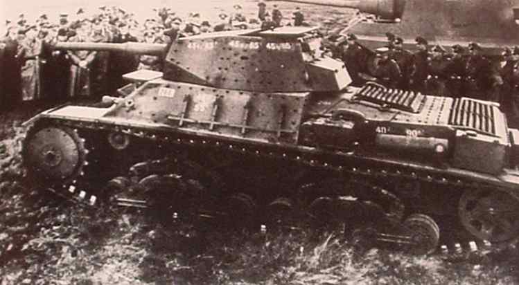 Italian heavy tank P26/40